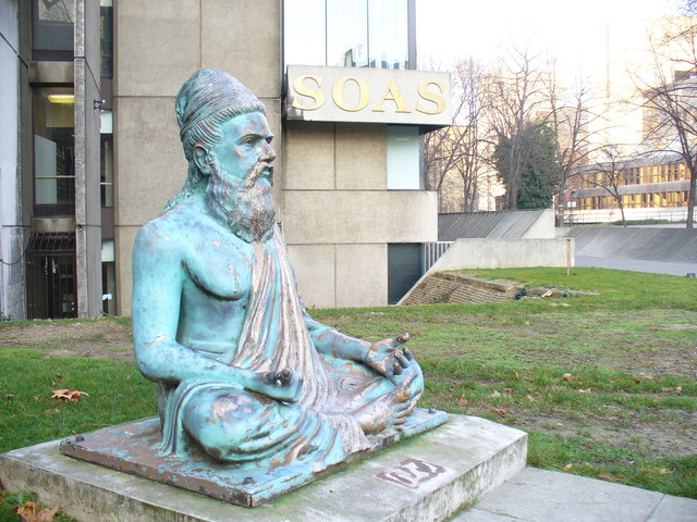 Meditation at SOAS Statue outside the SOAS entrance, near Russell Square.